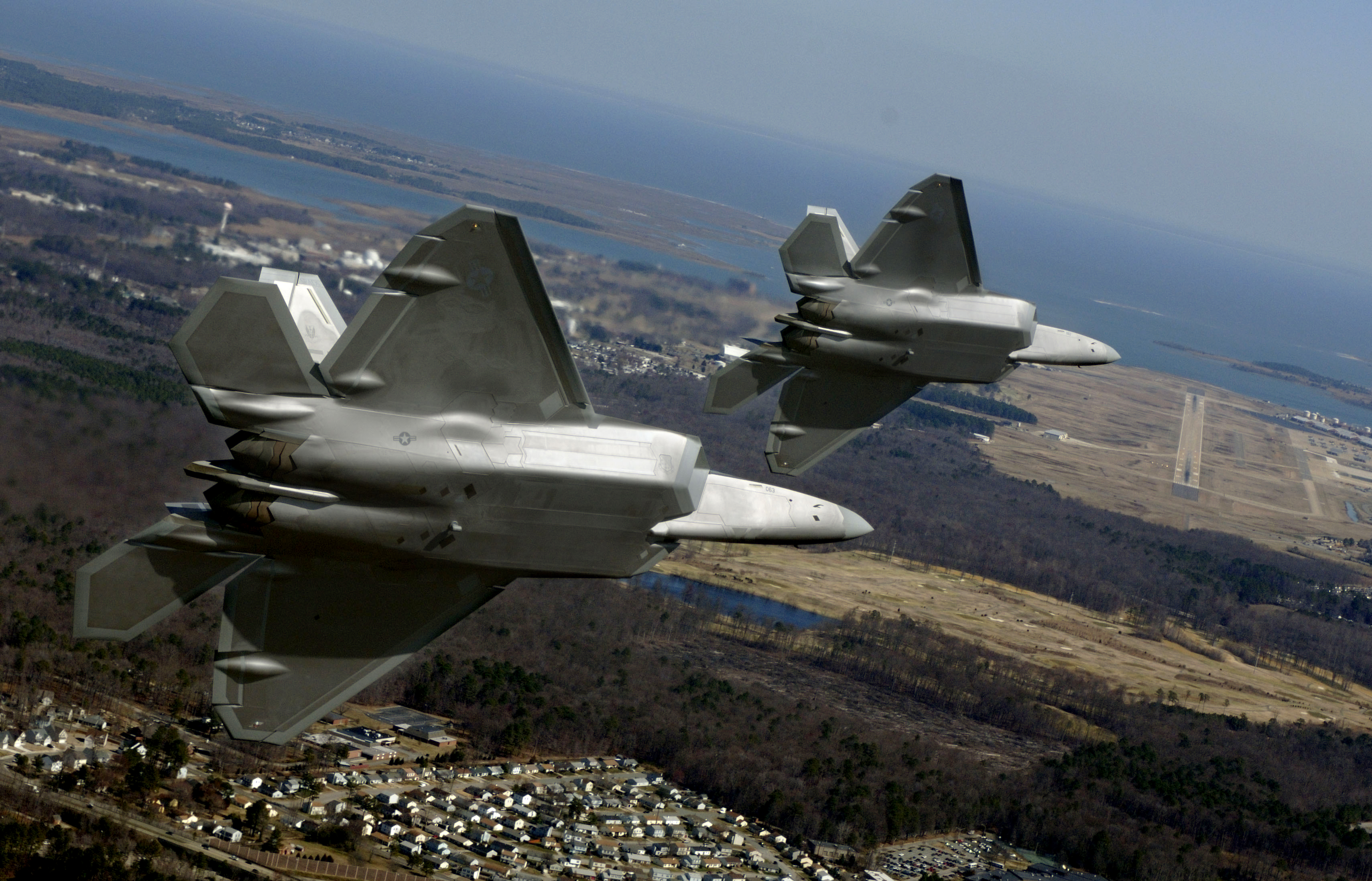 Lieutenant Colonel Dirk Smith, 94th Fighter Squadron commander, and Major Kevin Dolata, 94th Fighter Squadron assistant director of operations, turn in on final approach to Langley Air Force Base to deliver the first F-22A Raptors to be assigned to the 94th Fighter Squadron March 3, 2006. The 94th is the second squadron at Langley to receive the new stealth fighter.